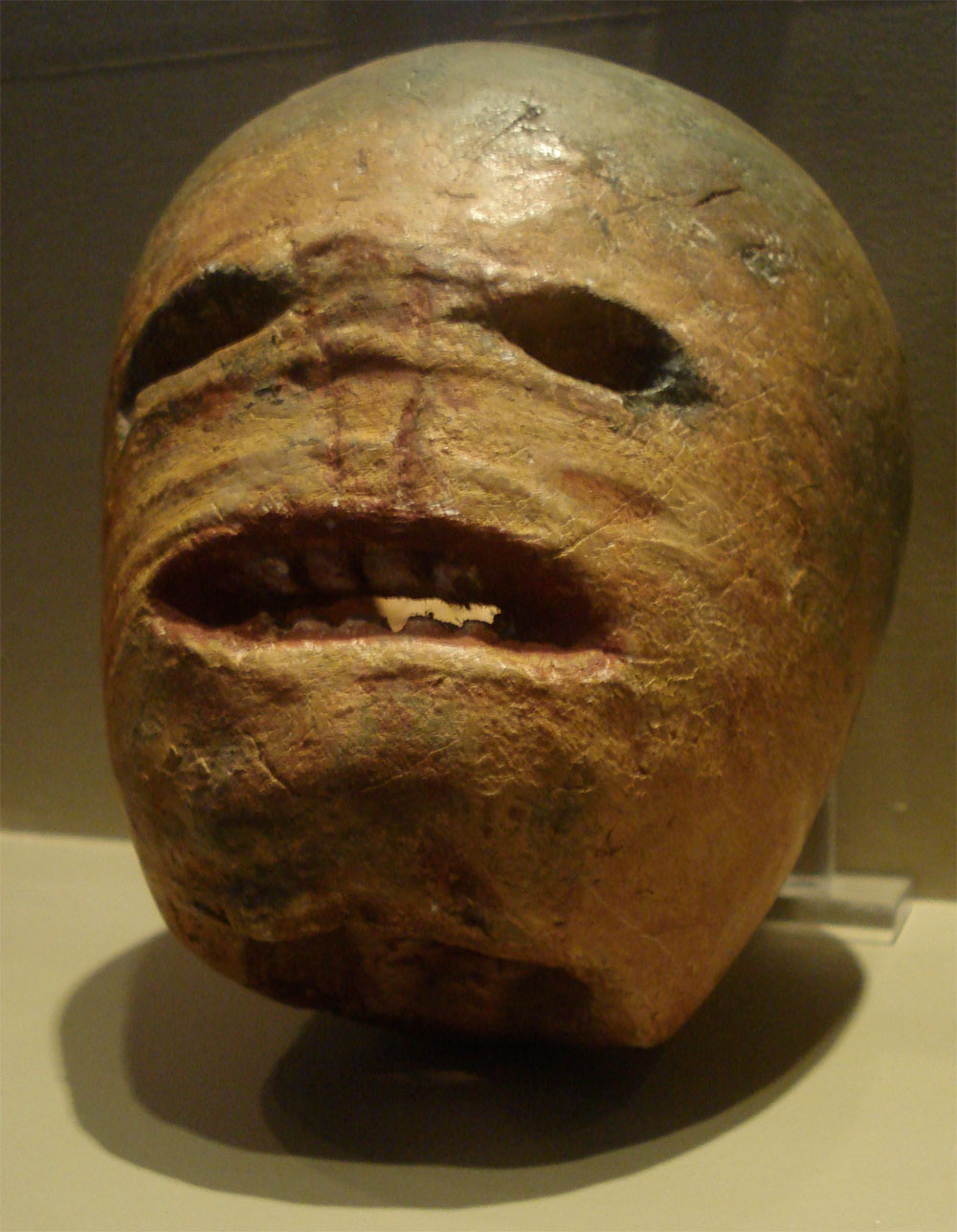 A traditional Irish turnip Jack-o'-lantern from the early 20th century. Photographed at the Museum of Country Life, Ireland.